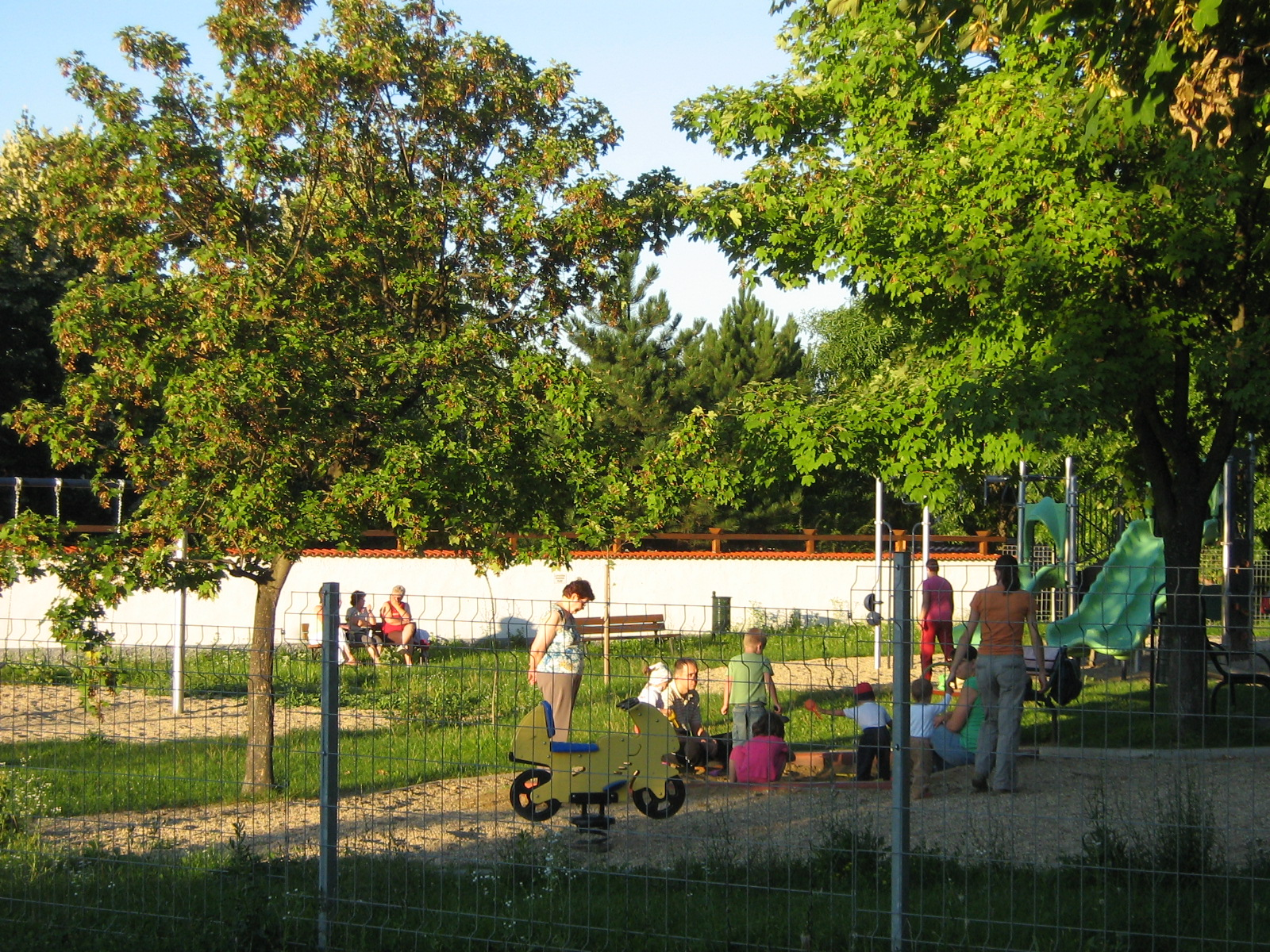 Playground in Komlóstető